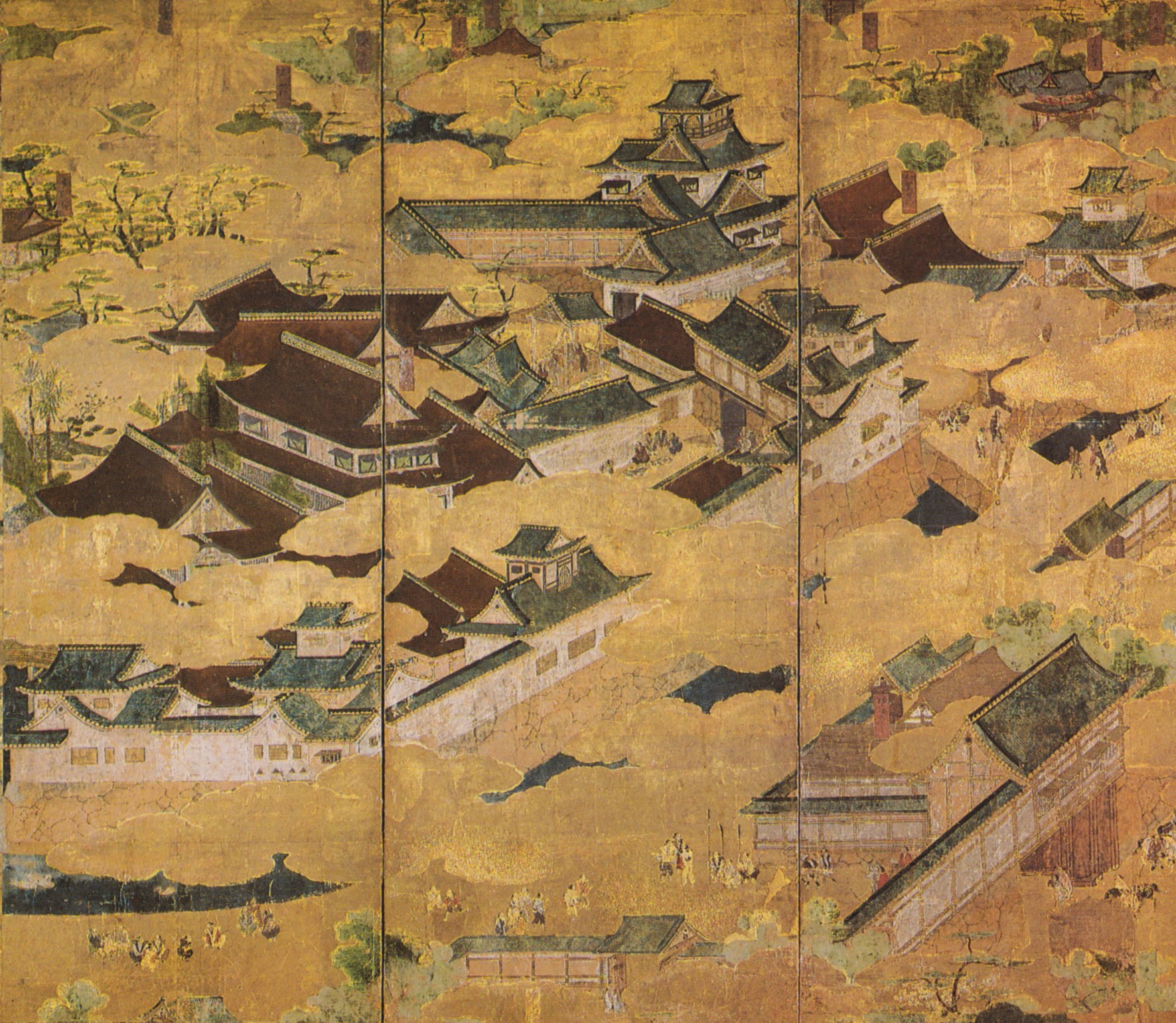 Jurakudai screen at Mitsui Museum